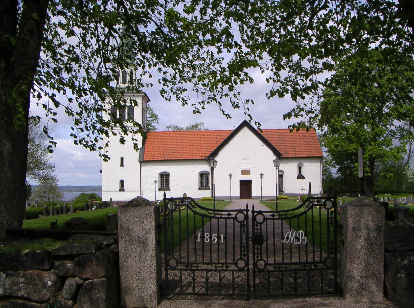 Marbäck Church.Exterior